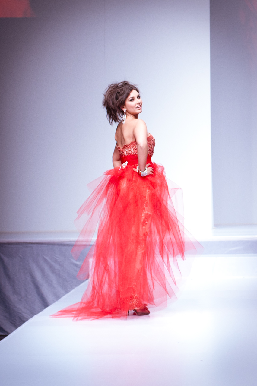 In 2012, The Heart Truth® marks a decade of commitment to women's heart health. Starting with February's American Heart Month and throughout the year, the National Heart, Lung, and Blood Institute (NHLBI) reaffirms its commitment to increasing awareness about heart disease among women and helping women take steps to reduce their own personal risk of developing heart disease. thehearttruth.ca thehearttruth + Photography by Jason Hargrove This set is available with a Creative Commons Attribution license for non-commercial use for media and bloggers alike. High resolution commercial use licenses can be purchased on request :)